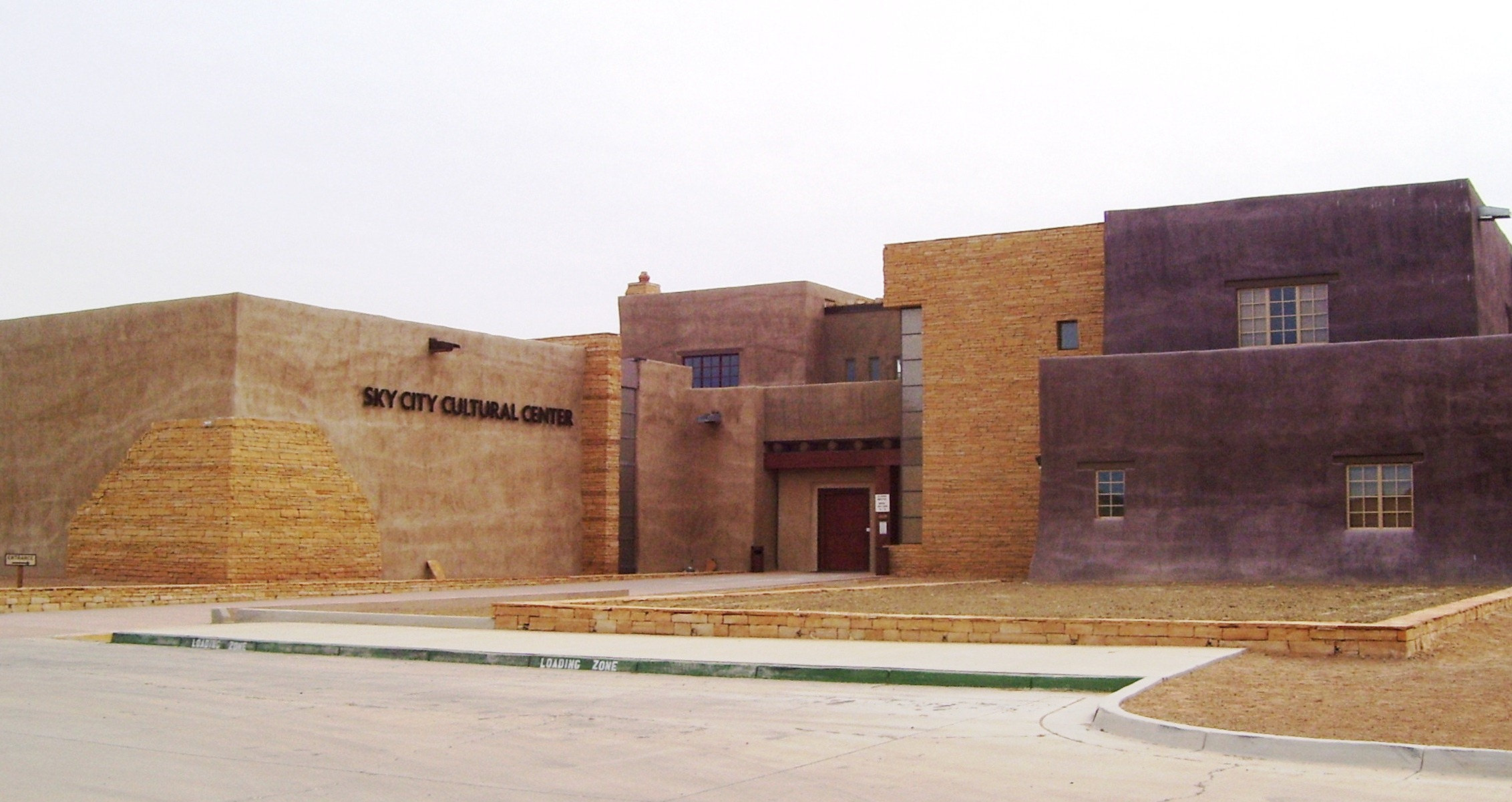 The Sky City Cultural Center of Acoma Pueblo, New Mexico, was designed by a Native American arcitect, and includes in it the Haak'u Museum.